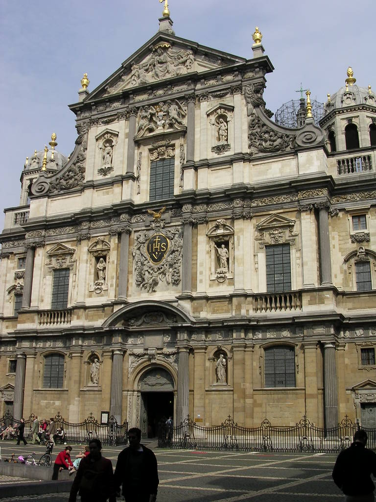 Baroque facade of Sint-Carolus-Borromeuskerk (Church of St. Charles Borromeo) — in Antwerp, Belgium.